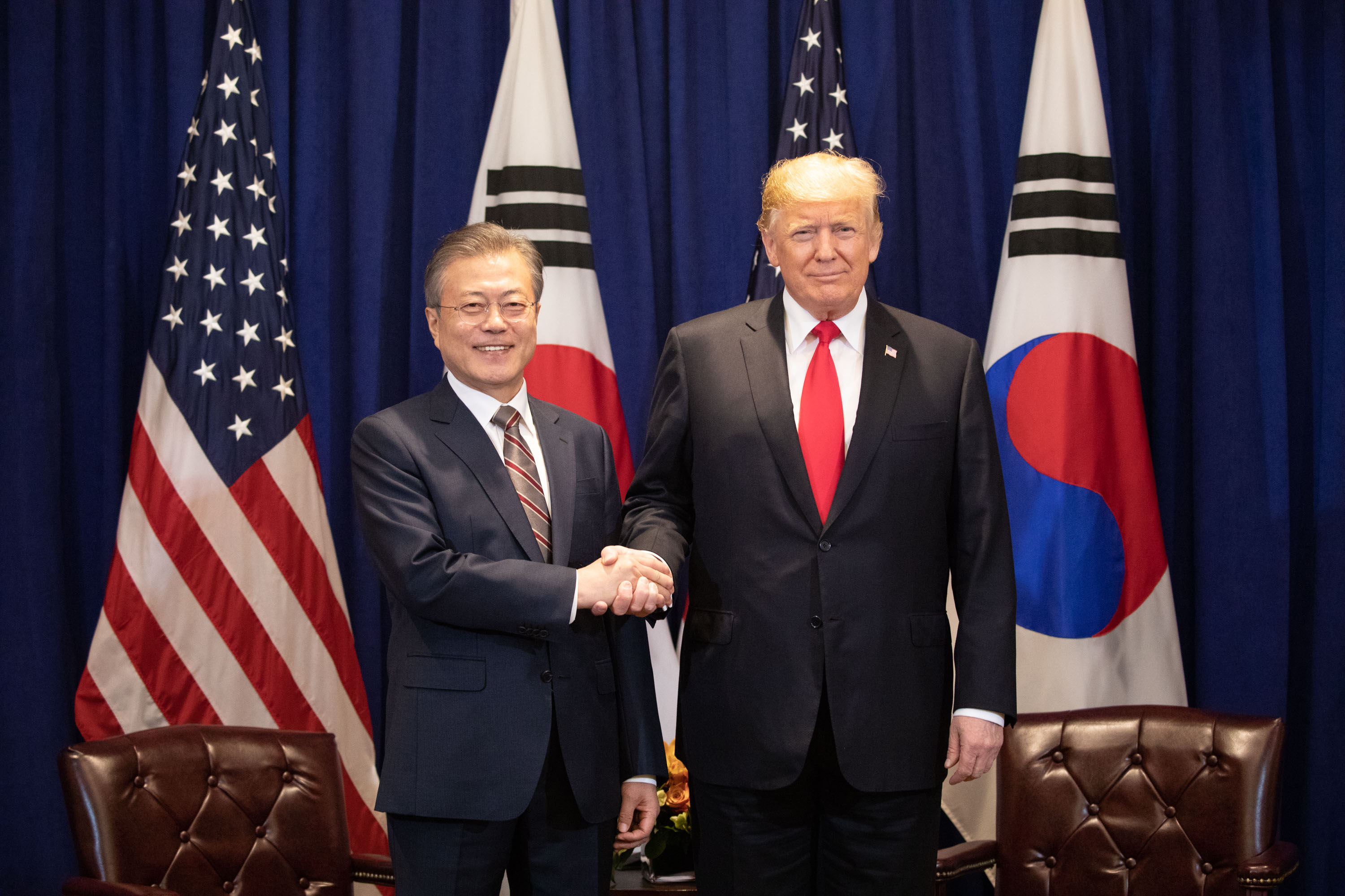 President Donald J. Trump with the President of the Republic of South Korea Moon Jae-in at a bilateral meeting Monday, Sept. 24, 2018, at the Lotte New York Palace in New York. (Official White House photo by Shealah Craighead)